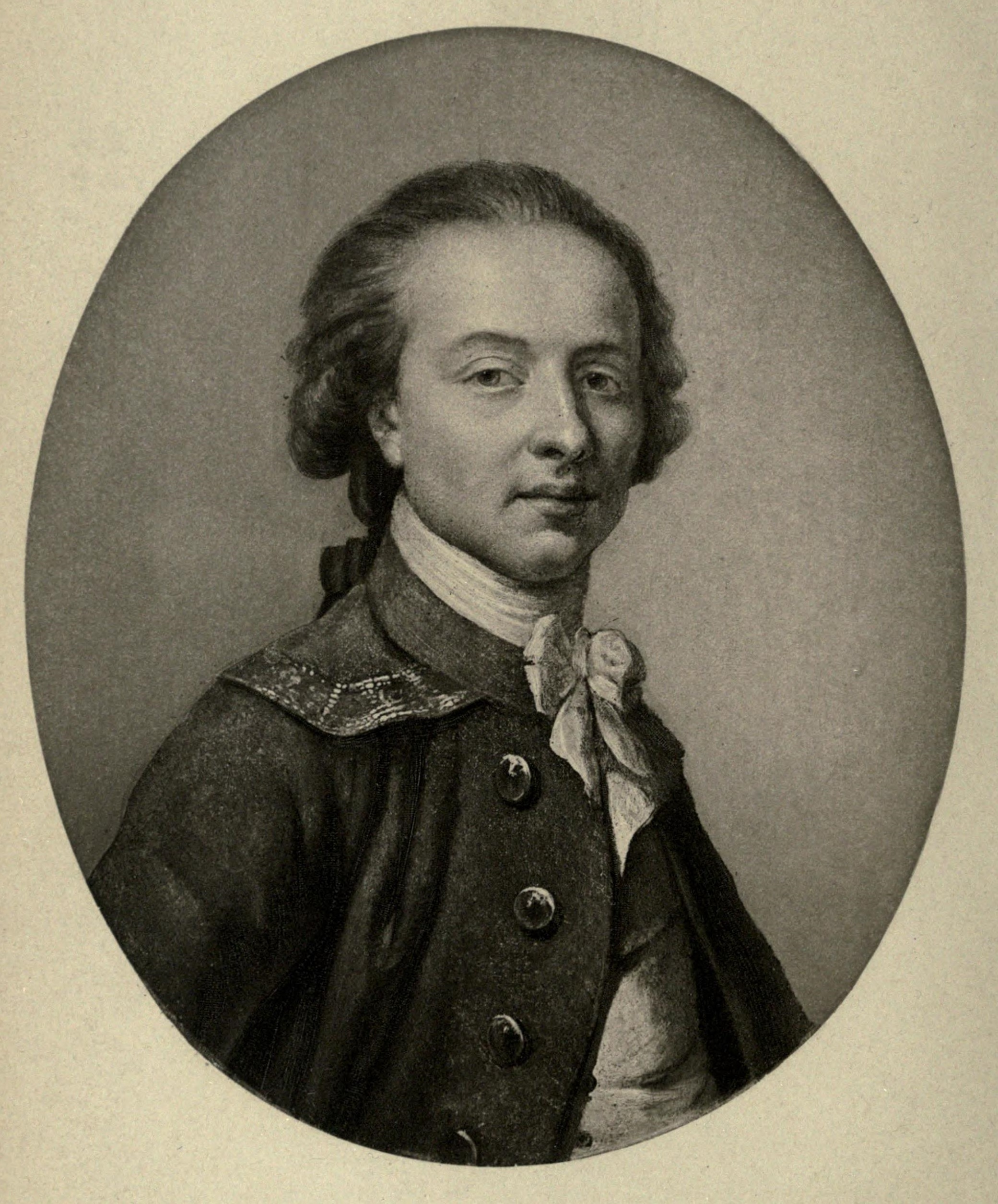 Portrait of Antoine de Rivarol in 1784.